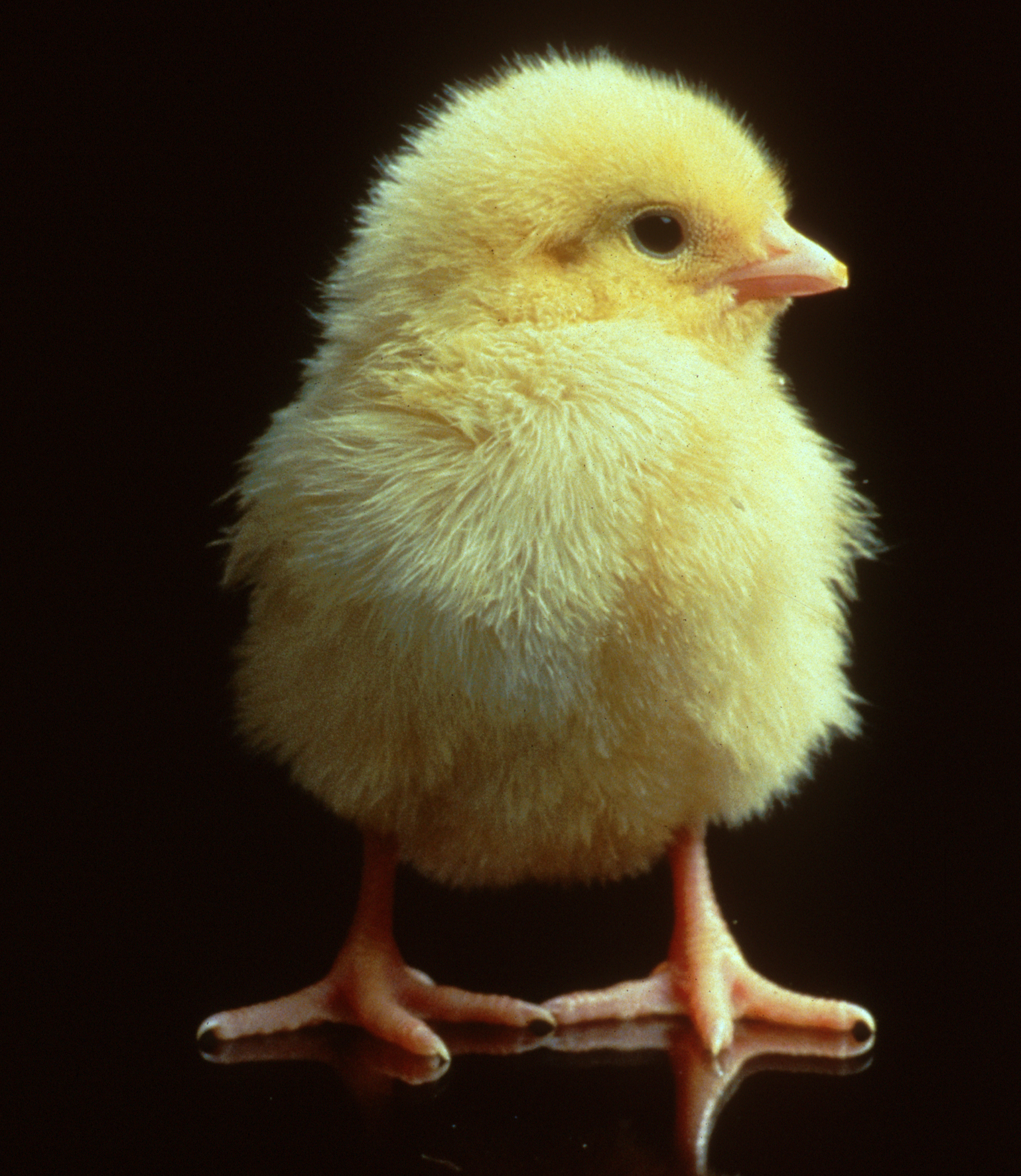 A day old chicken. CSIRO Livestock Industries is working to develop new vaccines and treatments for the poultry industry.